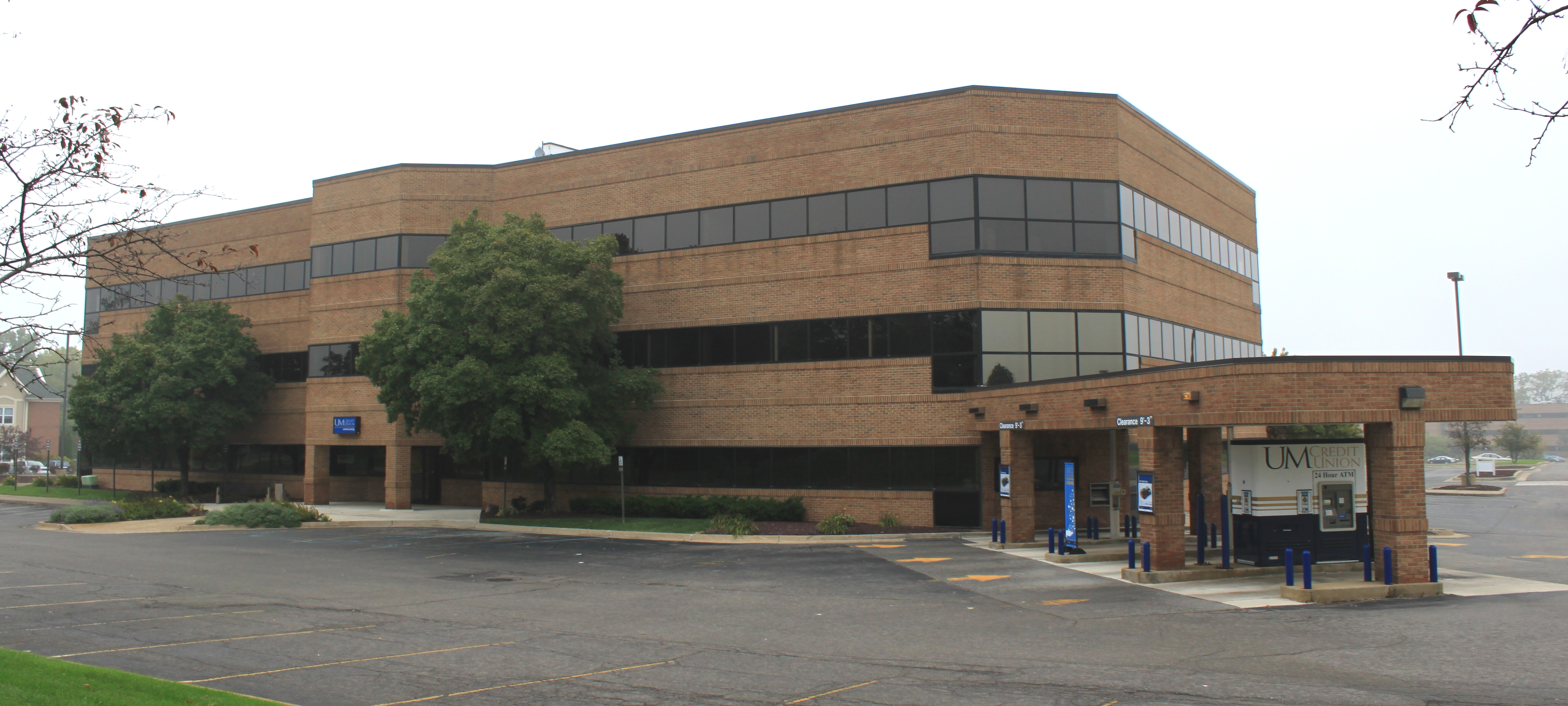 University of Michigan Credit Union East Eisenhower Branch, 305 E. Eisenhower, Ann Arbor, Michigan